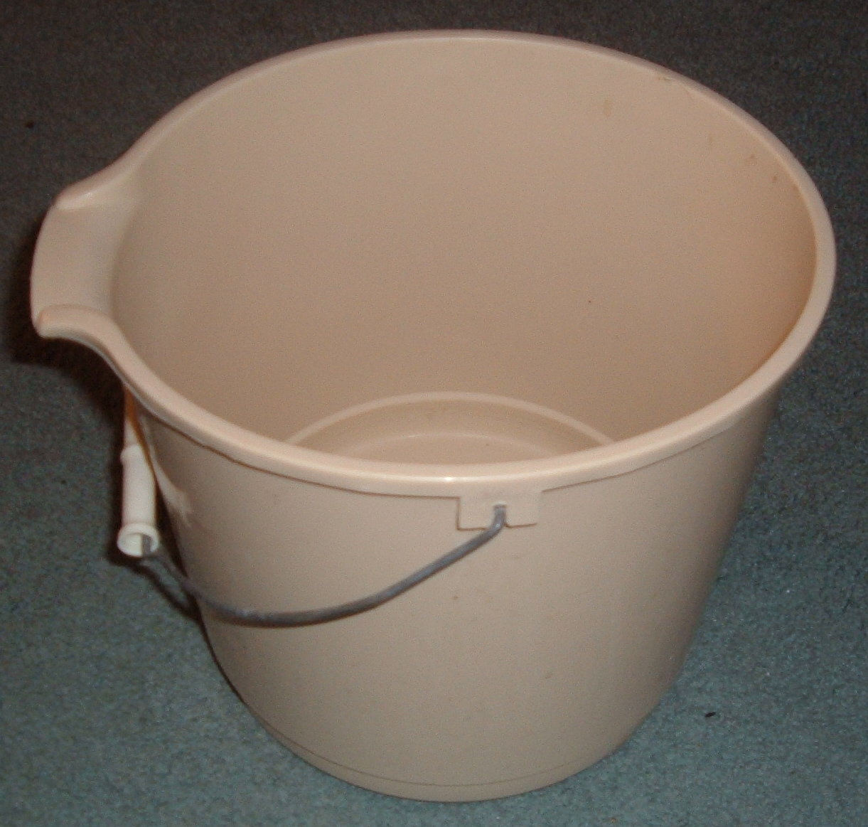 Water bucket. One of a series of common objects I photographed in the summer of 2005 to illustrate Basic English picture wordlist. --agr 21:08, 3 August 2005 (UTC)